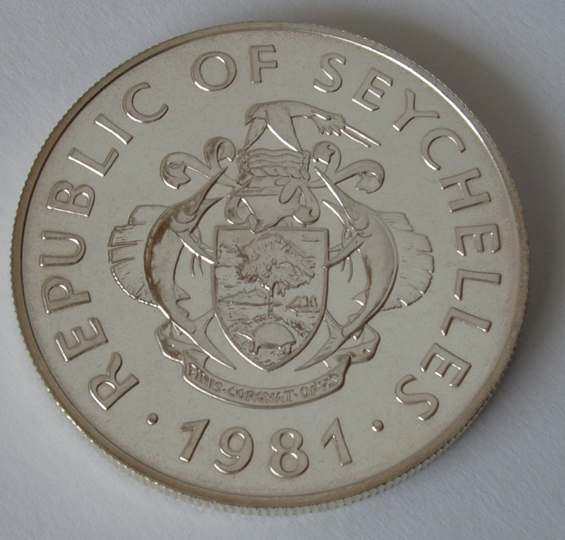 Seychelles, 100 Rupees, 1981, back, d=42 mm, 925/1000 silver